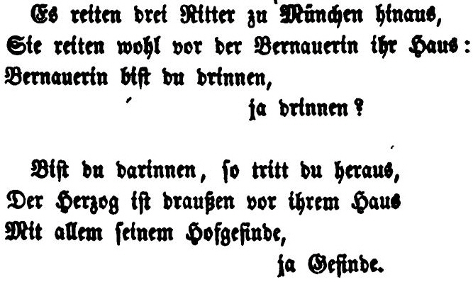 Lied von der schönen Bernauerin, beginning